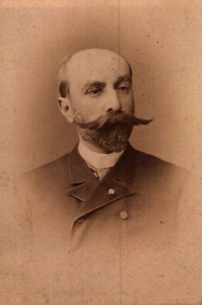 Bulgarian physican and diplomat Georgi Valkovich (1833-1892)